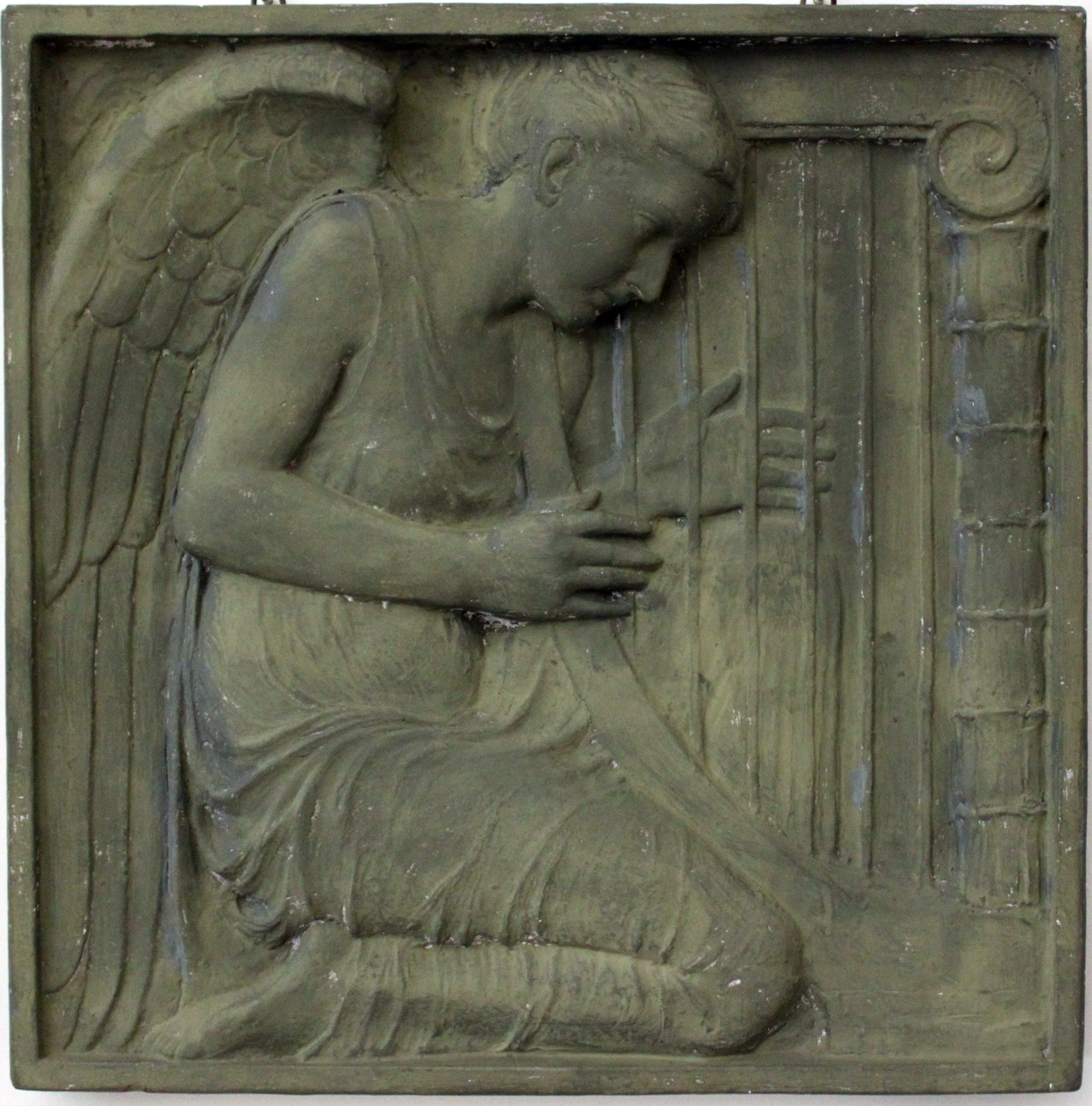 Model for a memorial slab, 1920 Anna Magnussen-Petersen (1871-1940) Museumsberg Flensburg Native nameMuseumsberg FlensburgLocationFlensburgCoordinates54° 47′ 08.52″ N, 9° 25′ 53.69″ E Established1876 Web page control : Q1954806 VIAF: 153292417 LCCN: nb2009027482 GND: 2166186-8 SUDOC: 07759679X WorldCat institution QS:P195,Q1954806 Inv.Nr. 25393